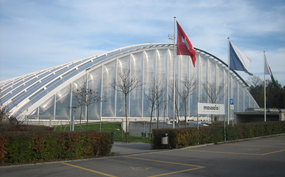 Masoala Hall Zurich